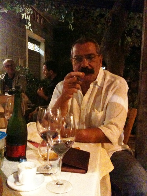 Giuseppe D'Avanzo (Peppe), Italian journalist, Rosignano Marittimo (Livorno), Lungomare Cristoforo Colombo